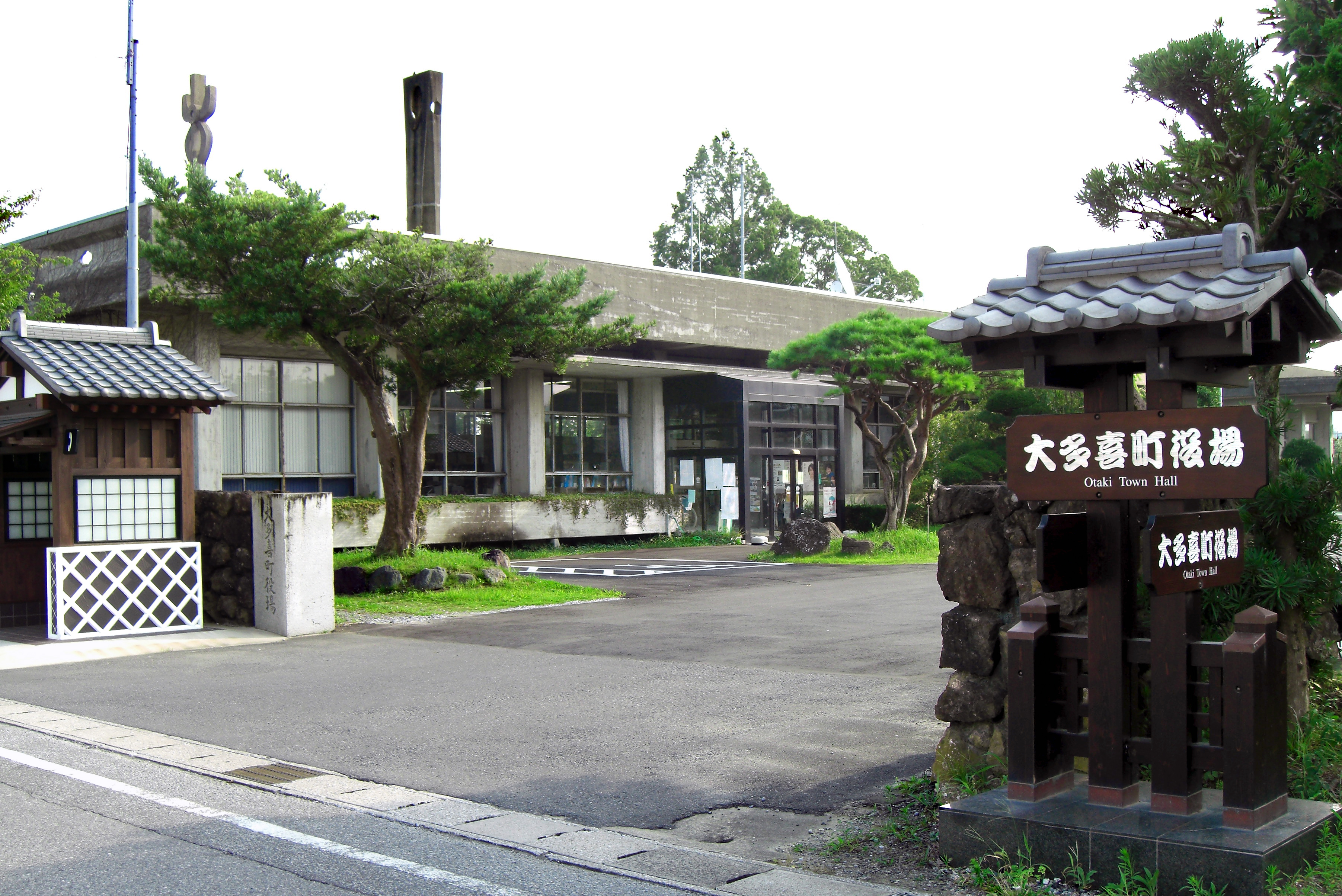 Chiba prefecture Ootaki-townoffice